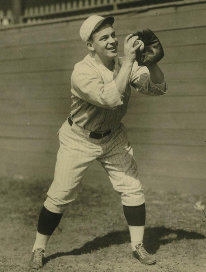 1931 photo of Boston Red Sox player Pat Creeden